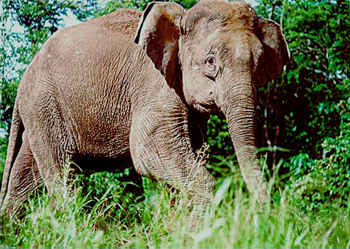 Borneo Elephant (Elephas maximus borneensis)